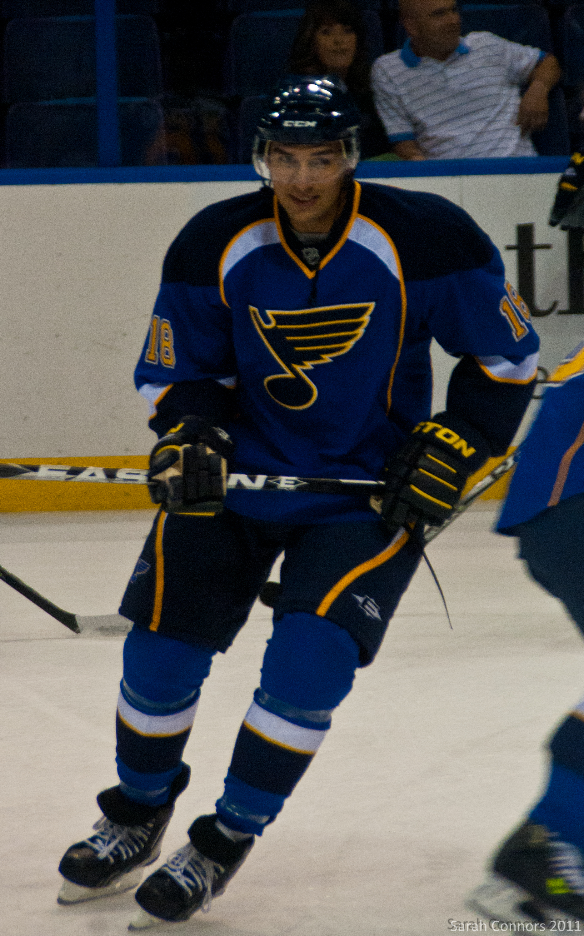 Jonathan Cheechoo of the St. Louis Blues